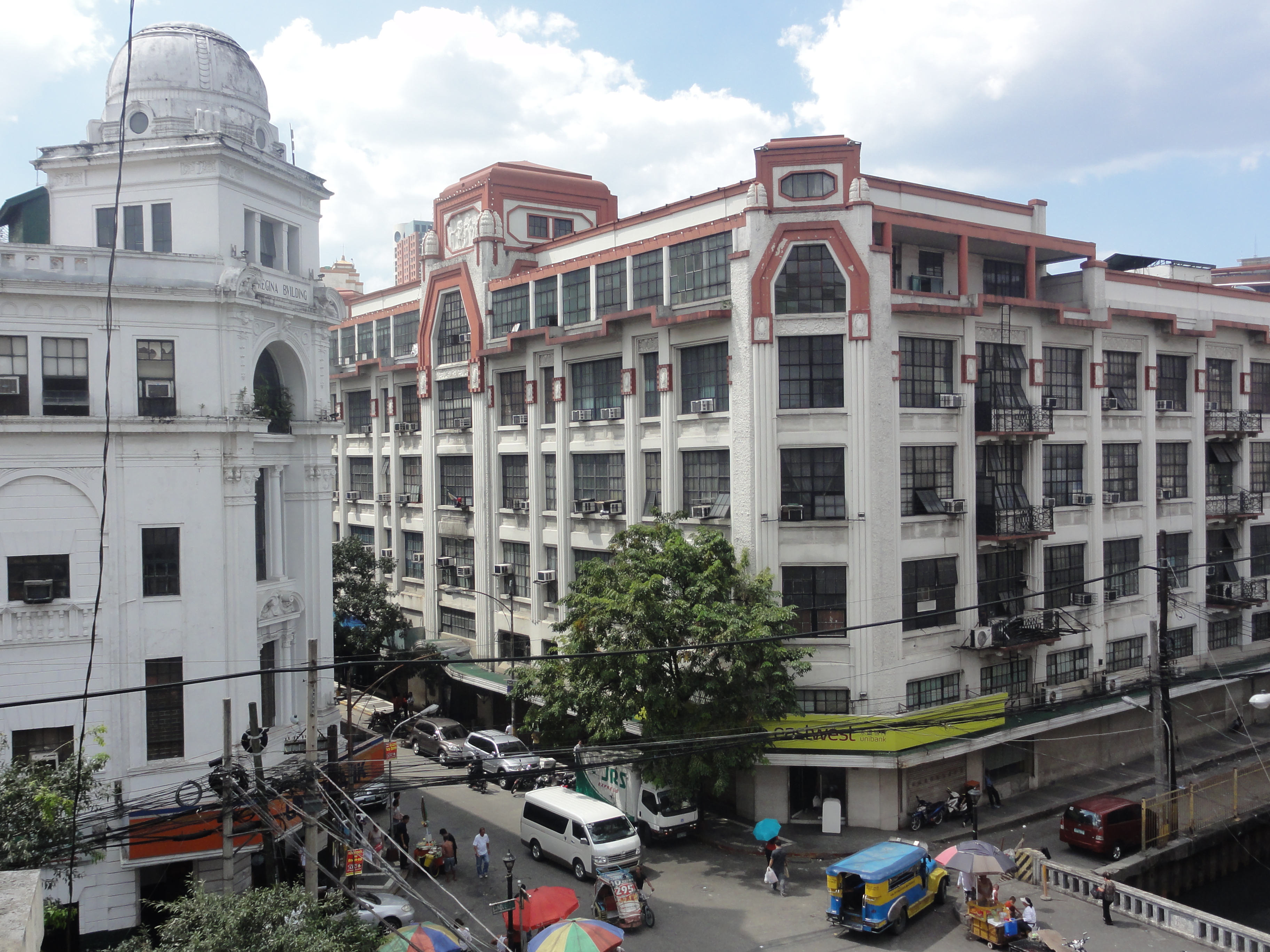 Regina Building and First United Building at Escolta Street, Binondo, Manila